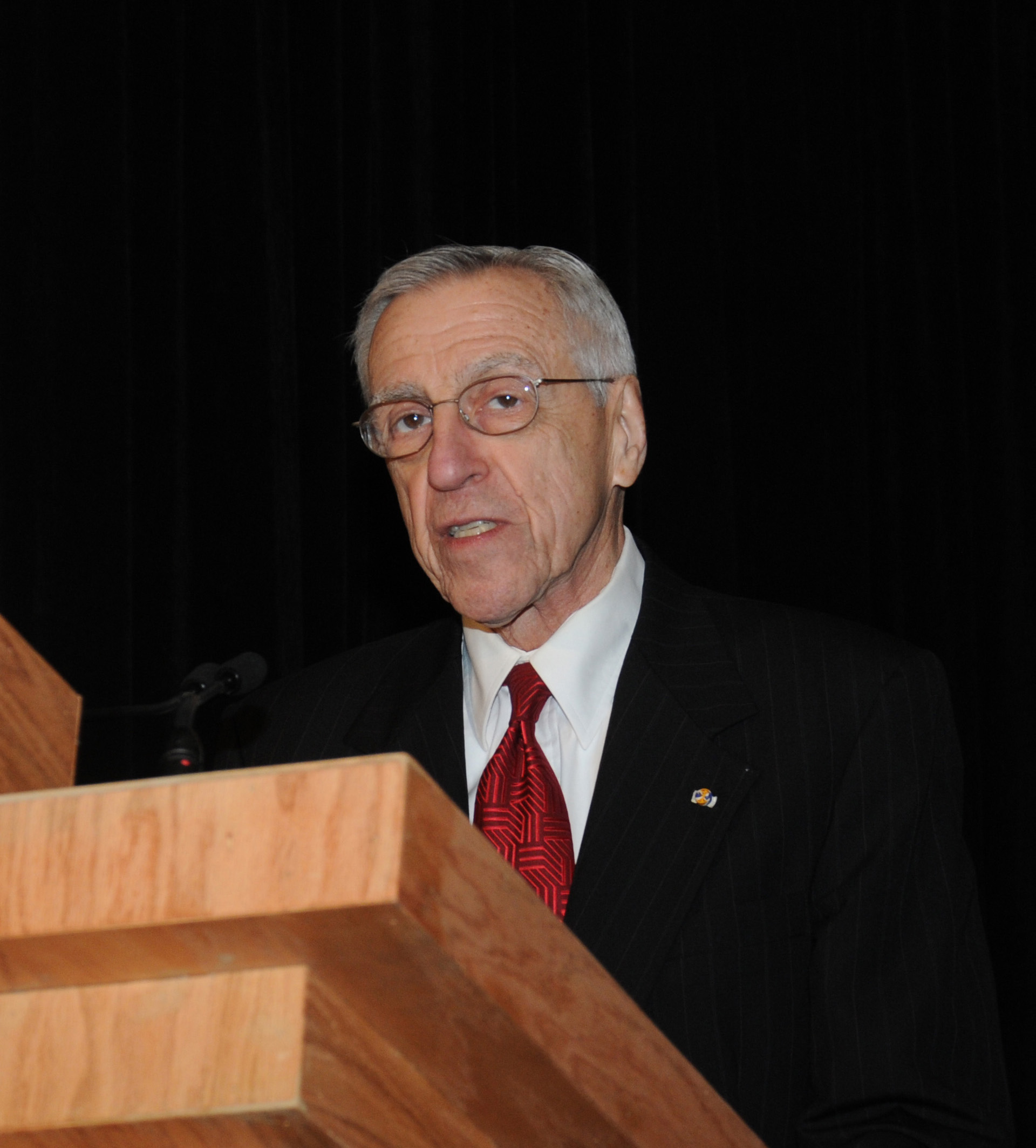 Photograph of Frank Popoff, recipient of the 2014 Petrochemical Heritage Award, at the podium at the International Petrochemical Conference of the American Fuel and Petrochemical Manufacturers (AFPM: formerly NPRA), held March 29-April 1, 2014, at the Grand Hyatt San Antonio in San Antonio, Texas.